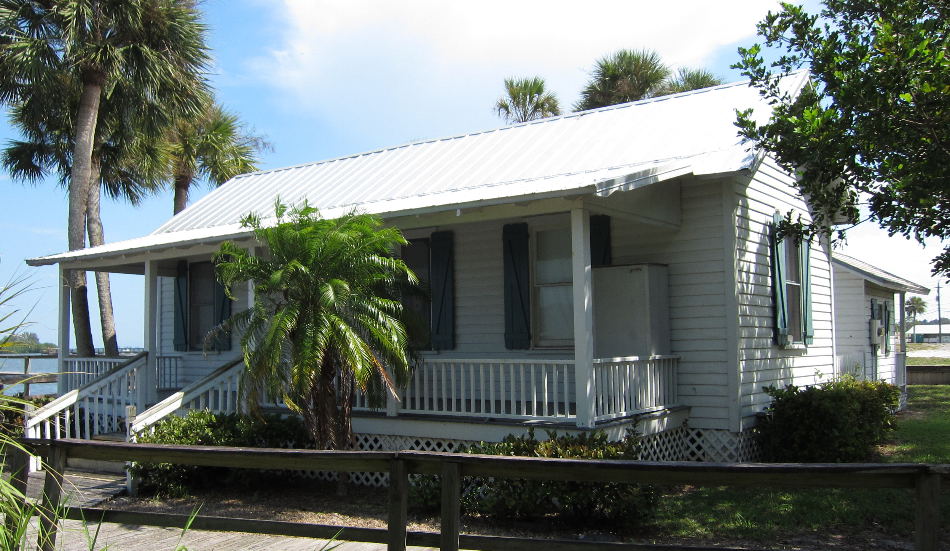 Bensen House, 5795 U.S. Route 1, Grant, Florida.